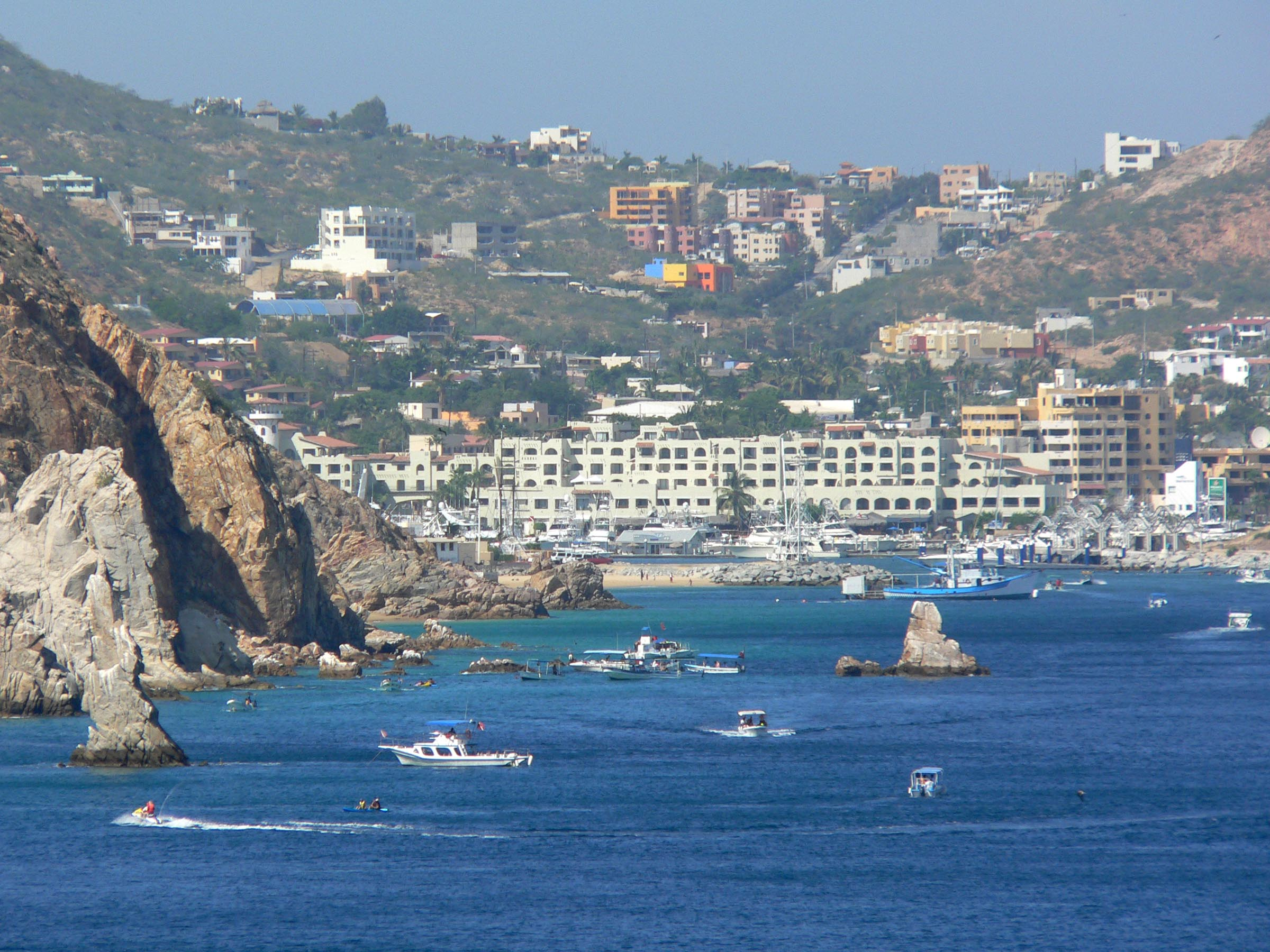 Photo of Cabo San Lucas bay, Mexico. Are you planning a trip to Mexico and wonder: is it safe to travel to Cabo San Lucas Well a few tips for you to stay safe while traveling to Mexico.